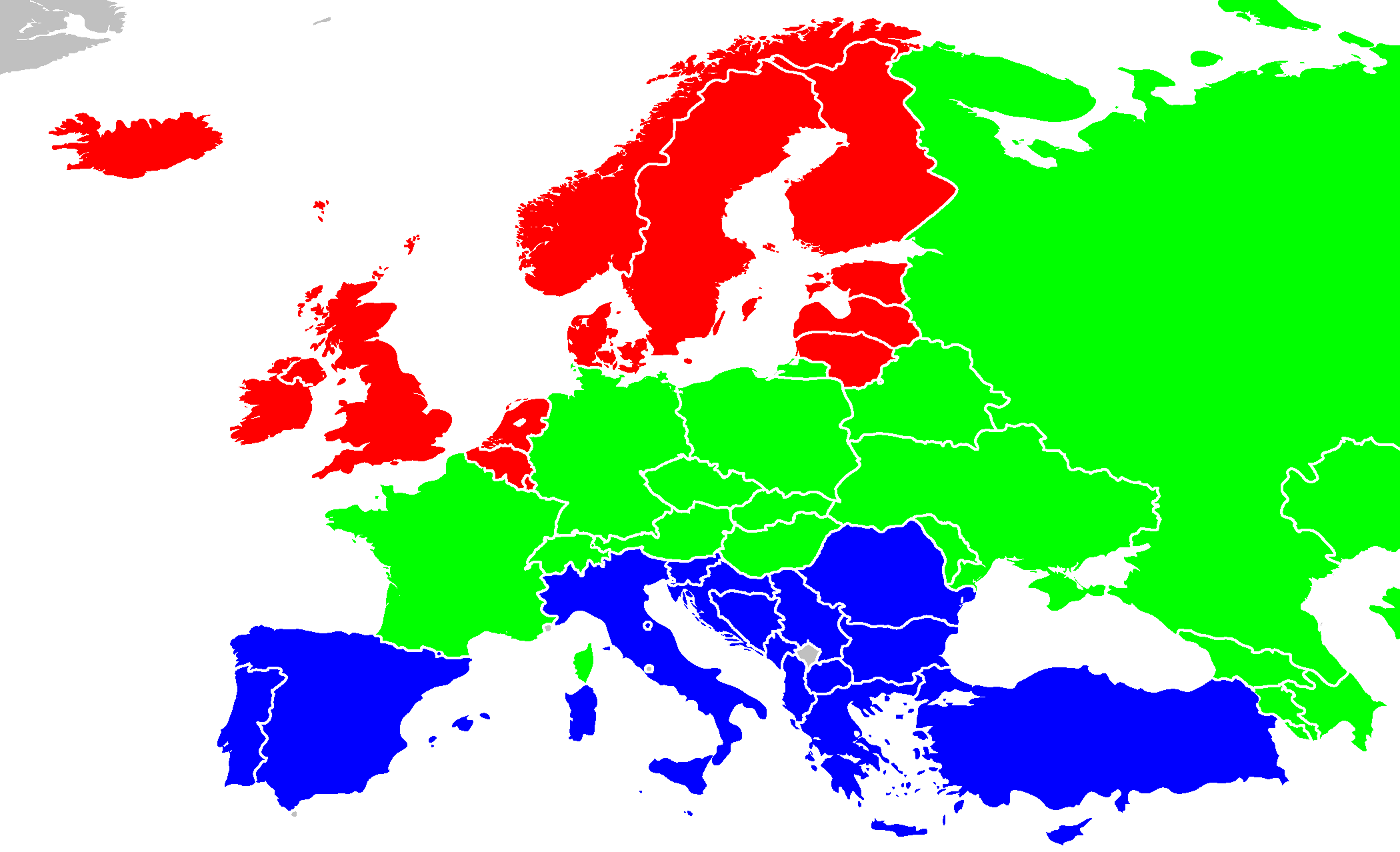 Made out of BlankMap-World.png